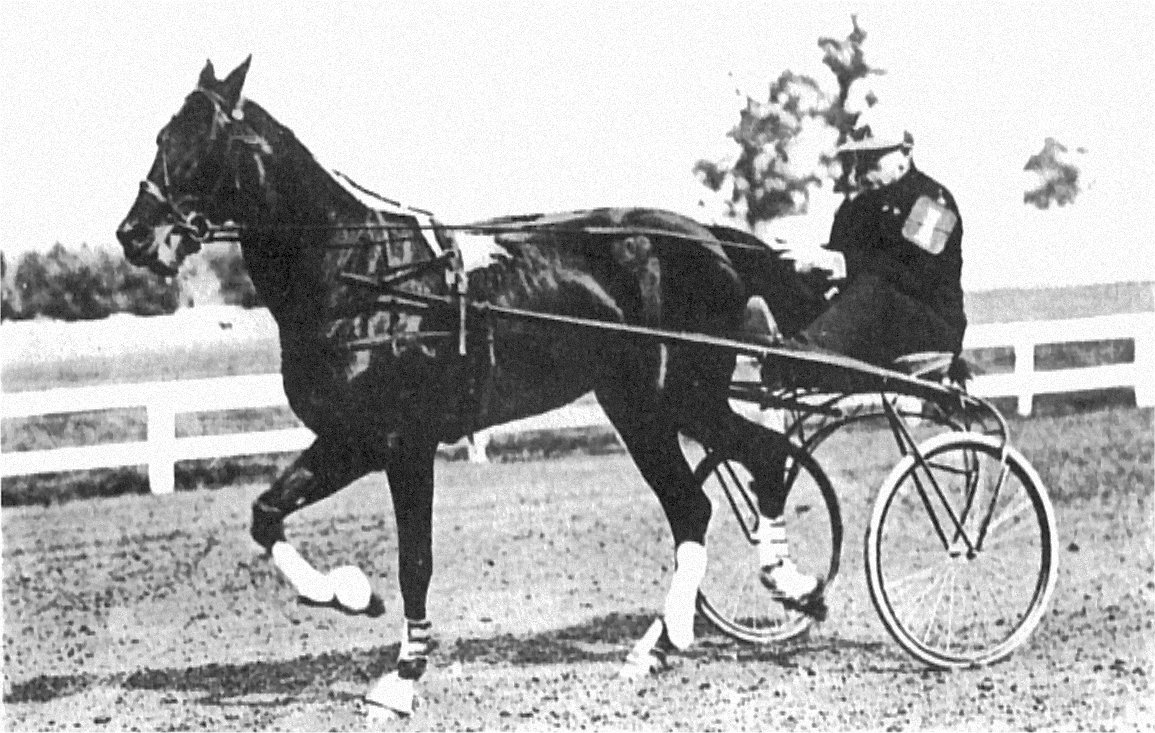 1906 Kentucky Futurity winner Siliko.